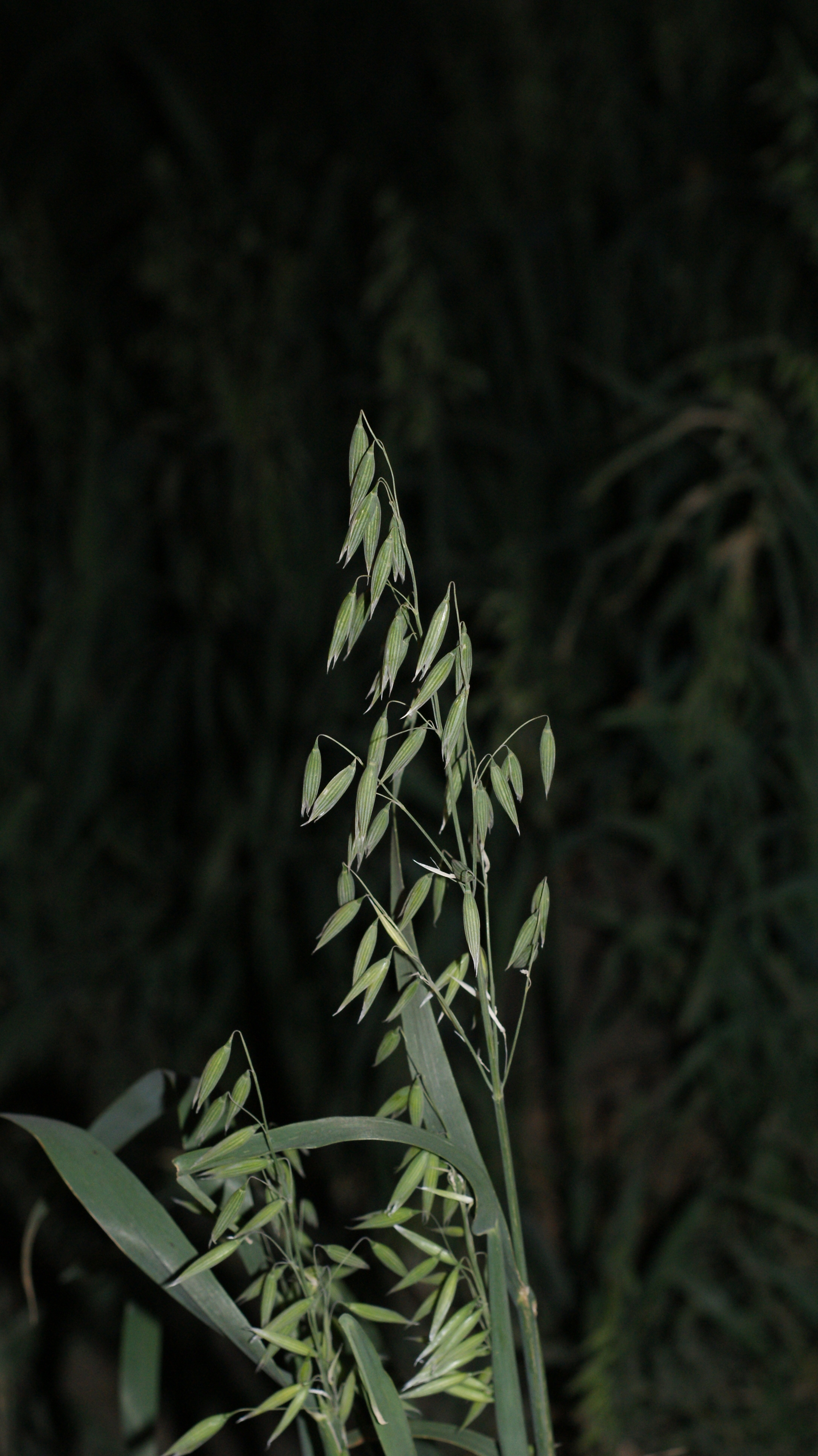 oat (Avena sativa) field in Saskatchewan south of Saskatoon